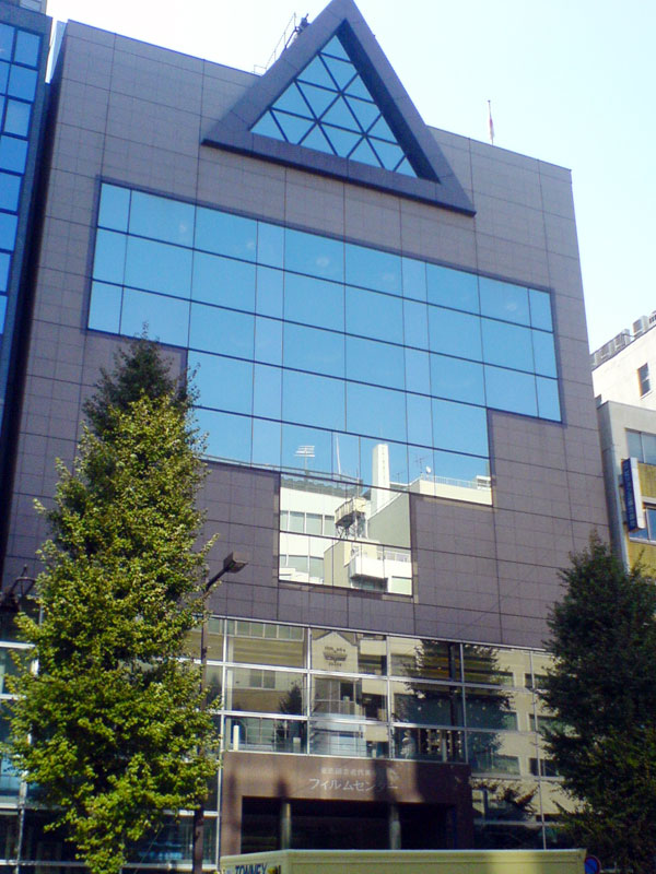 MOMAT FilmCenter Tokyo